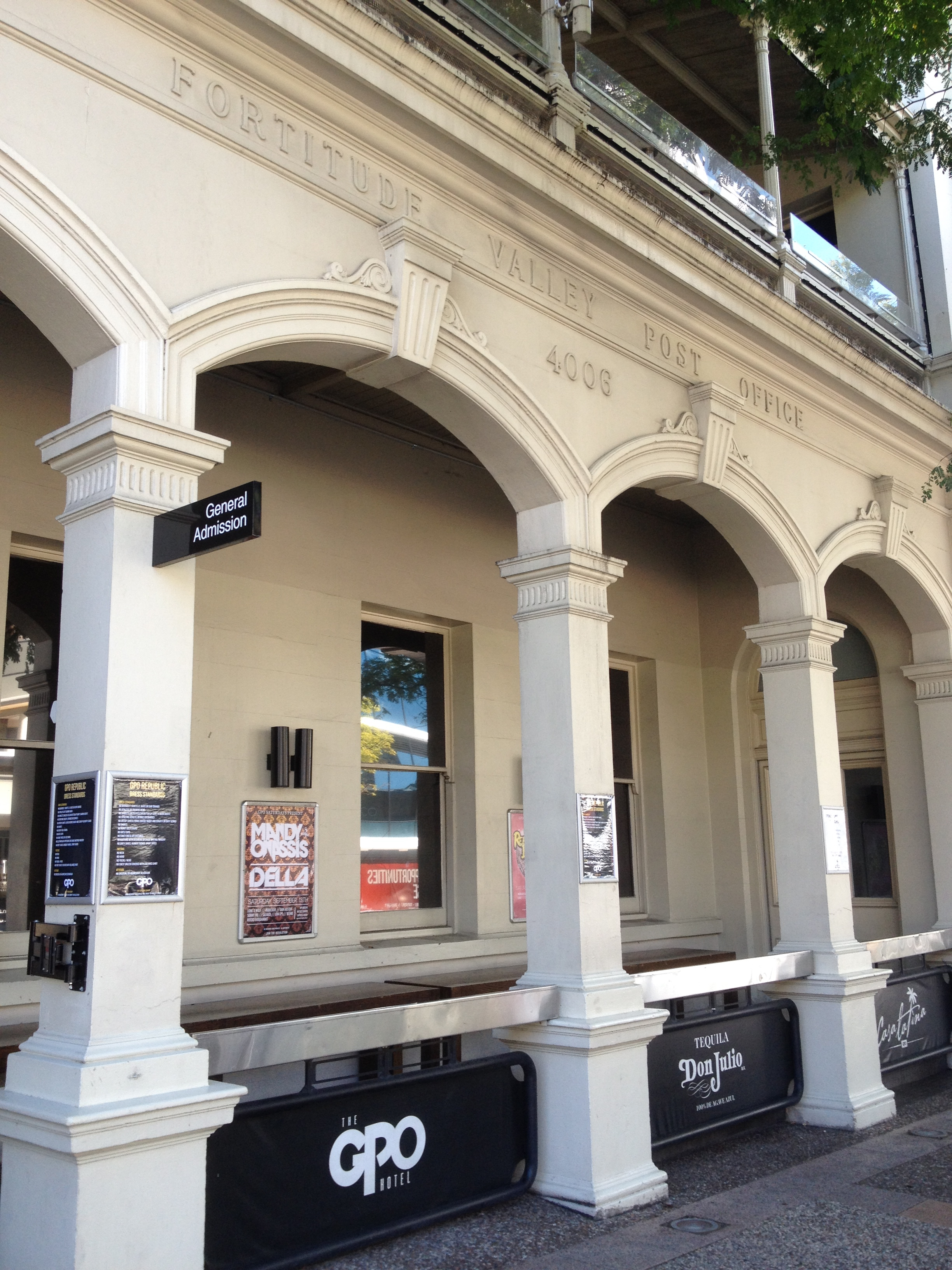 Fortitude Valley Post Office is a heritage-listed former post office at 740 Ann Street, Fortitude Valley, City of Brisbane, Queensland, Australia.